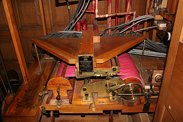 Orchestrion This is the heart of the orchestrium, and shows a roll of red paper with linear perforations controlling the various sounds produced by an array of organ pipes and percussion.